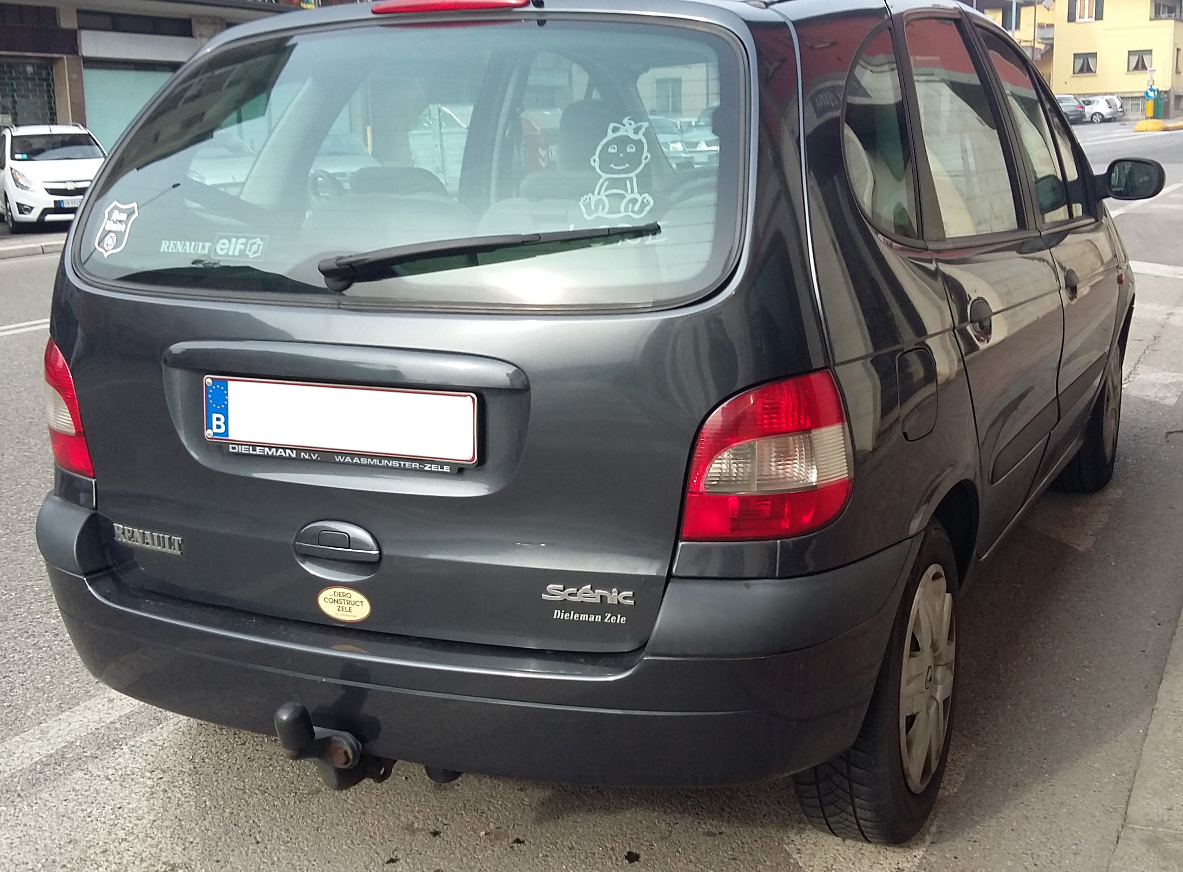 1996-2003 (1999 facelift) Renault Scénic, rear